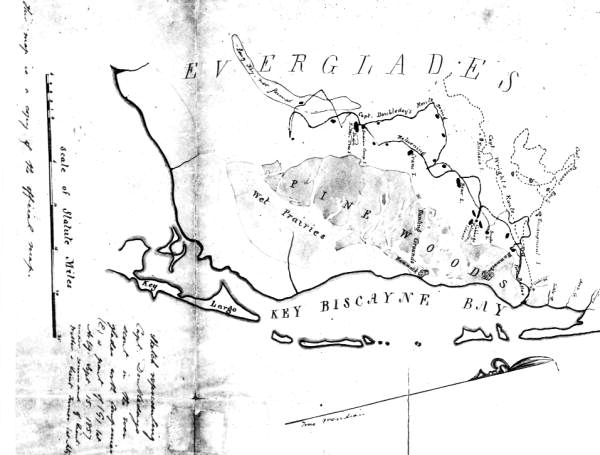 The sketch represents Captain Doubleday's scout in the Everglades with Companies E and part of G, 1st Artillery, under command of Lieutenant Webber and Lieutenant Turner. Captioned As { }